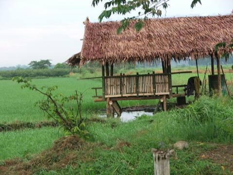 Damara of Farmer's shed (Nipa Hut) is made of bamboo and nipa are usually built on farms or ricefields to give the farmers a cover from sun's heat or during rainy season